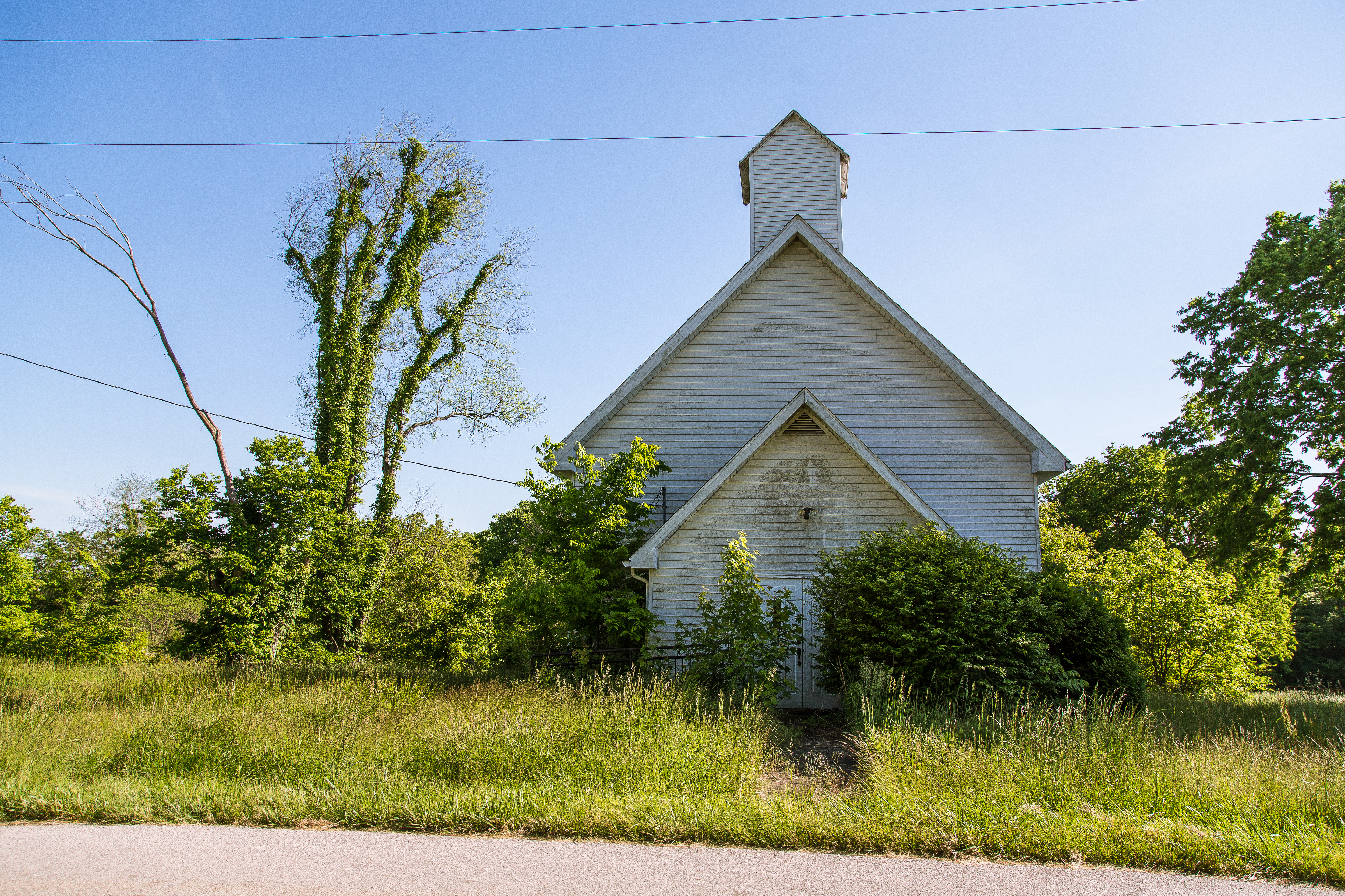 Photo from Small Town Indiana photo survey.